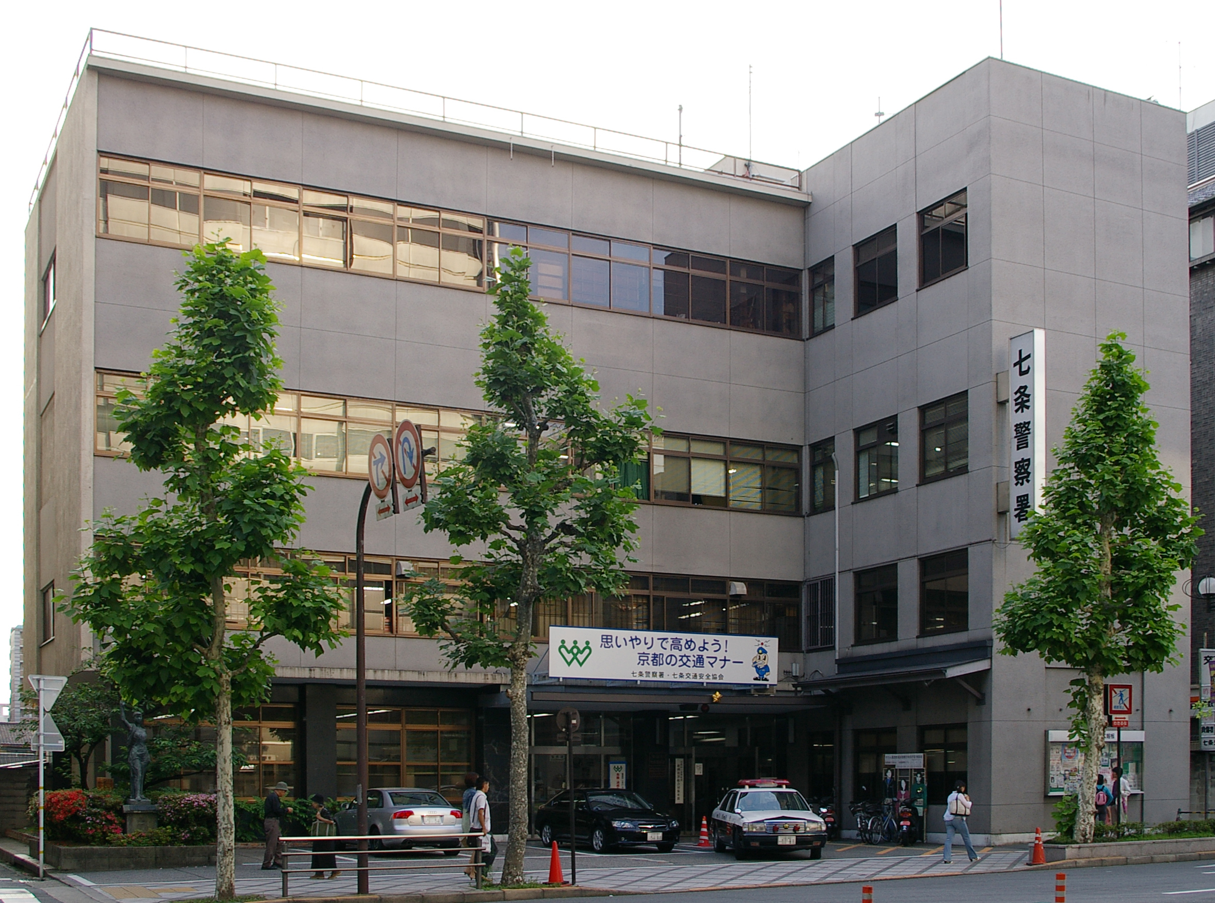 Photograph of Shichijo Police Station in Shimogyo-ku, Kyoto, Kyoto Prefecture, Japan.